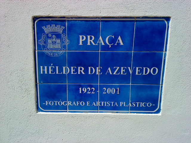 Praça Hélder de Azevedo - Faro - Gambelas